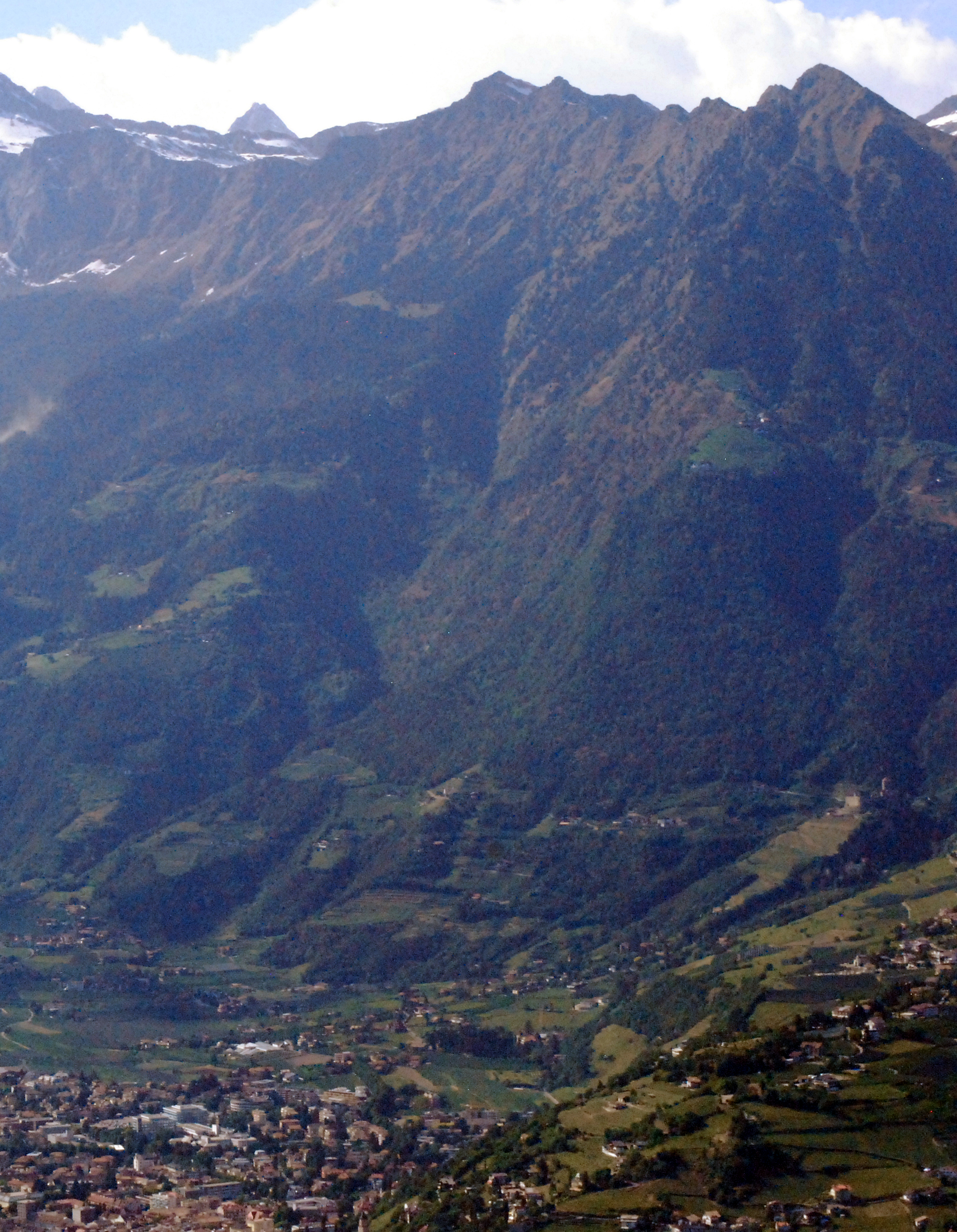 Spronser Rötelspitze, Mutspitze, Meran